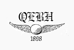 The winged sphere is the primary symbol of the QEBH Society.